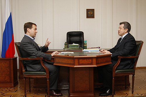 YAROSLAVL. With Governor of Yaroslavl Region Sergei Vakhrukov.